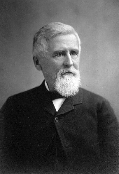 Henry Charles Lea 1870s from